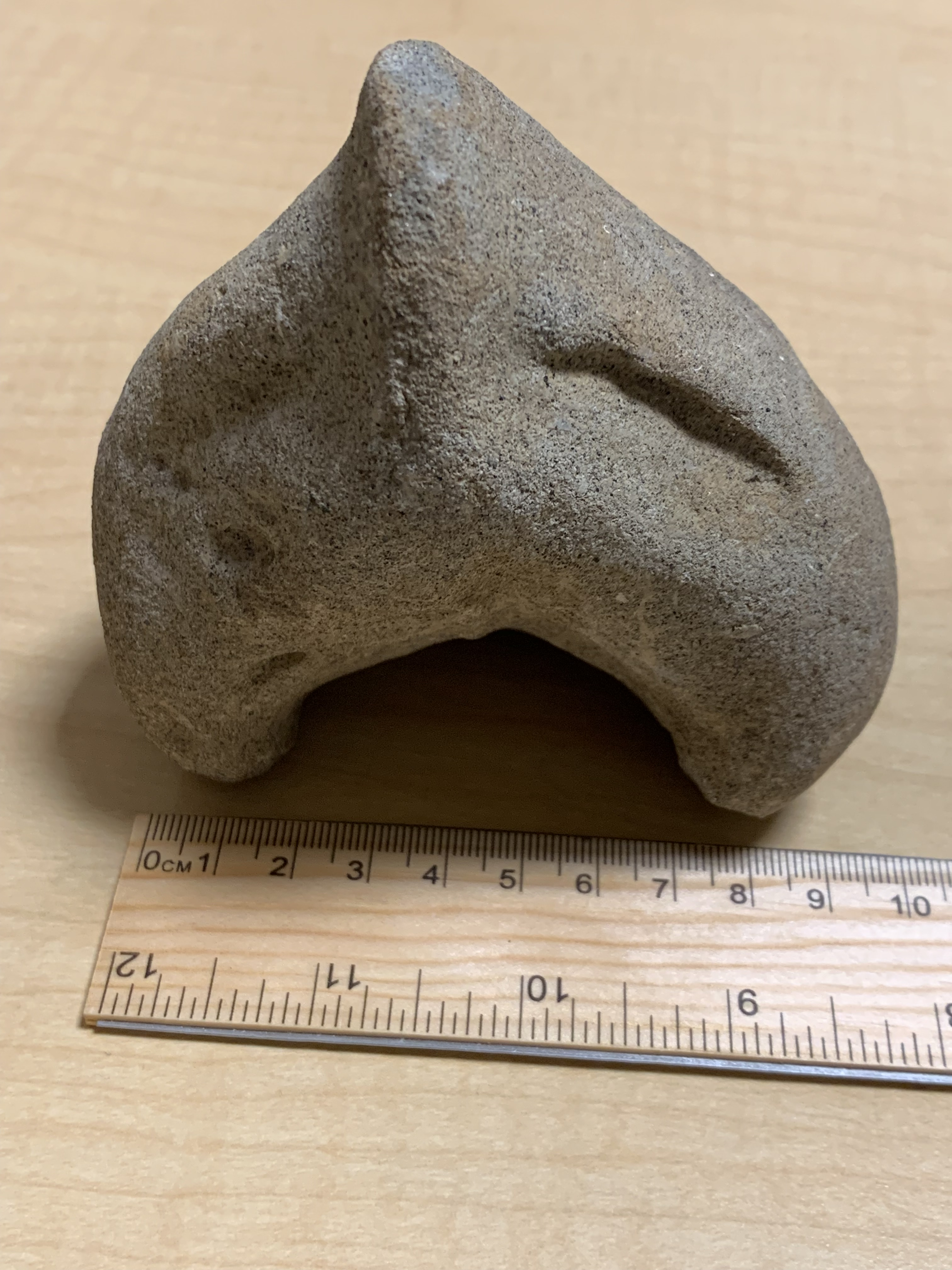 Fossilized false ark shell clam from Maryland, USA